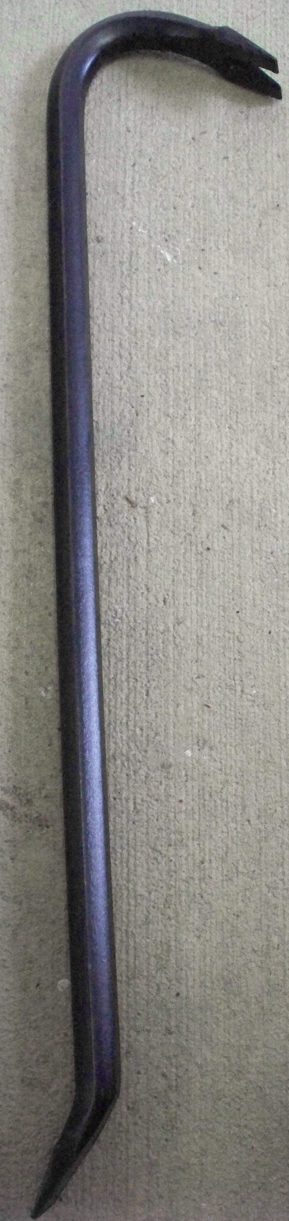 Picture of crowbar for crowbar(tool) article. No fair use as I created the image and am releasing it to the public domain.